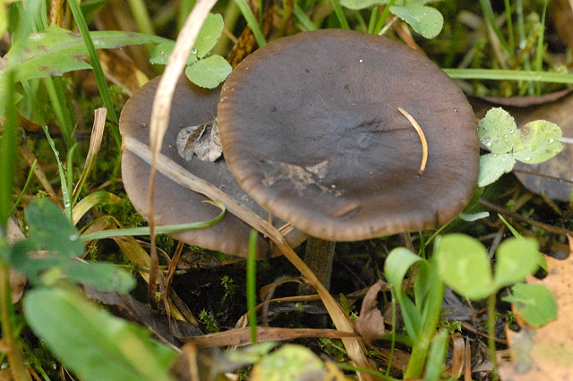 Melanoleuca spec. (maybe Melanoleuca melaleuca) from Commanster, Belgium. The determination of the species shown in this picture has been verified.